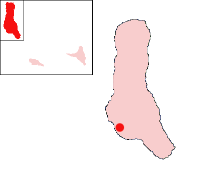 Mitsoudjé, Grande Comore, Comoros Location Map; created with the GIMP. Made by User:Acntx.